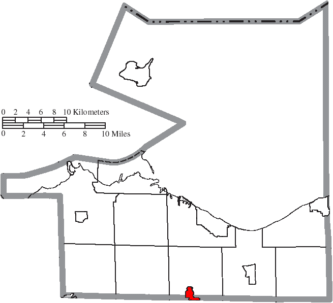 Map of the municipal and township boundaries of Erie County, Ohio, United States, as of the 2000 census, with the location of the village of Milan highlighted. Township borders are shown only in unincorporated areas in order to differentiate incorporated and unincorporated areas more clearly.